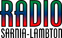 Radio Sarnia-Lambton Logo. Radio Sarnia-Lambton is the collective name for the three Sarnia-area radio stations (CHKS-FM, CFGX-FM, and CHOK-AM) owned and operated by Blackburn Radio, and the webportal that serves them.